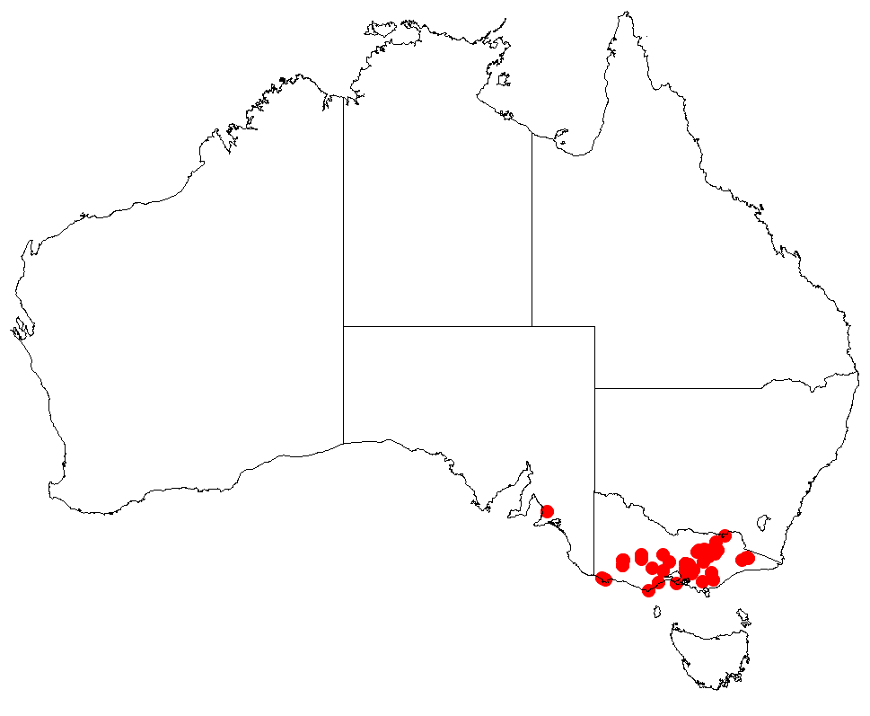 Acrotriche prostrata Occurrence data from Australasian Virtual Herbarium downloaded 23 November 2018 using